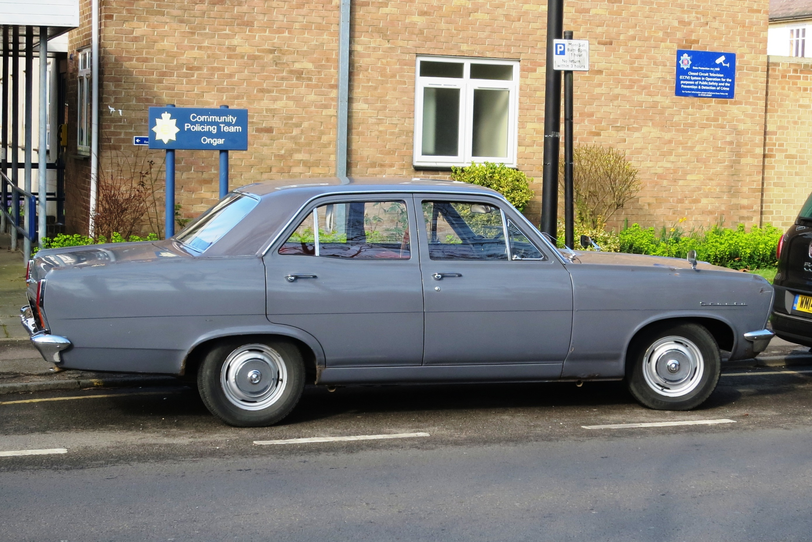 Vauxhall Cresta PC (1967) outside former police (aka PC) station (2016) in profile.